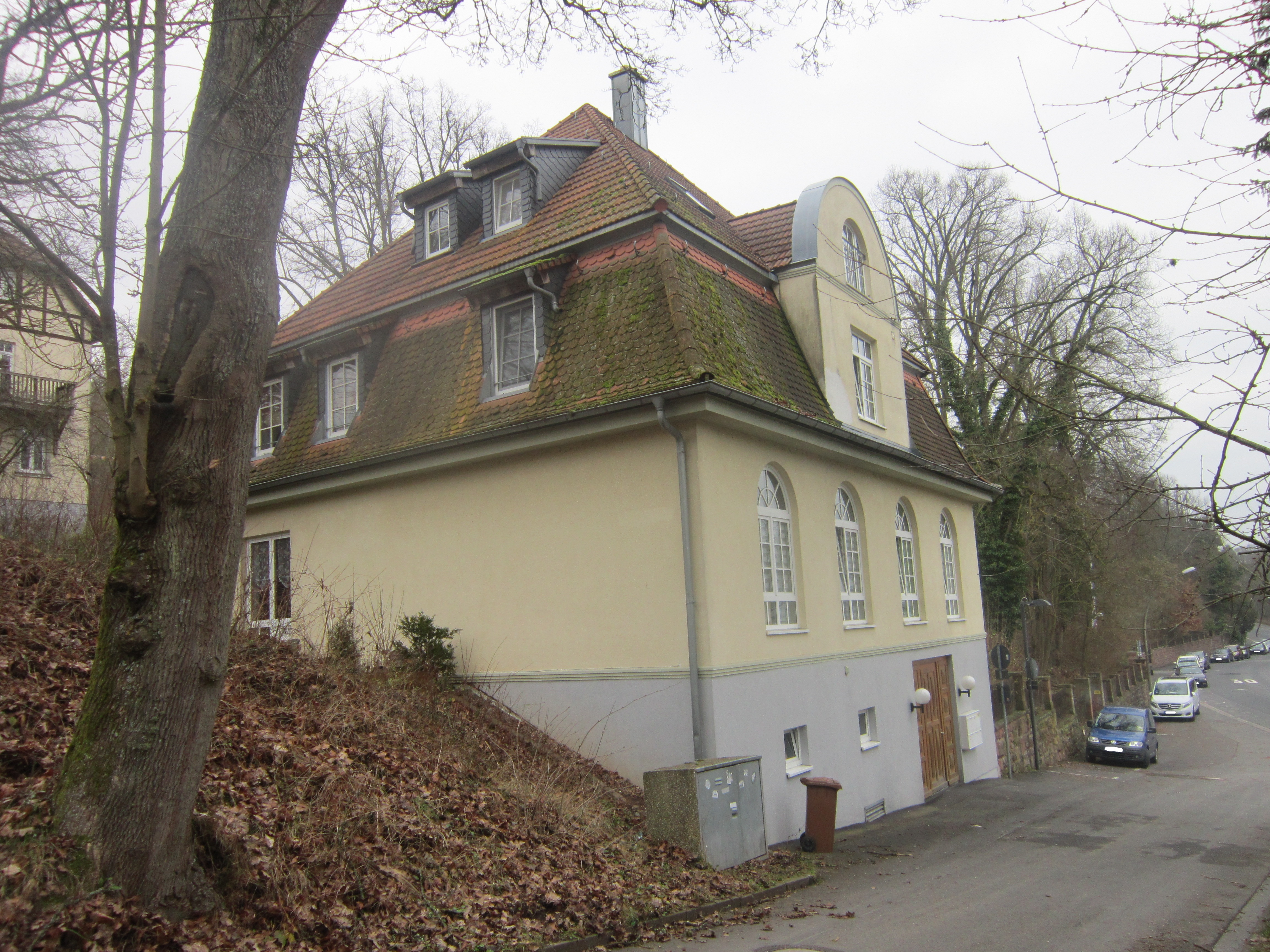 Building in the German spa town of Bad Kissingen in Lower Franconia (Bavaria) (Address: Bismarckstraße 68; 70).